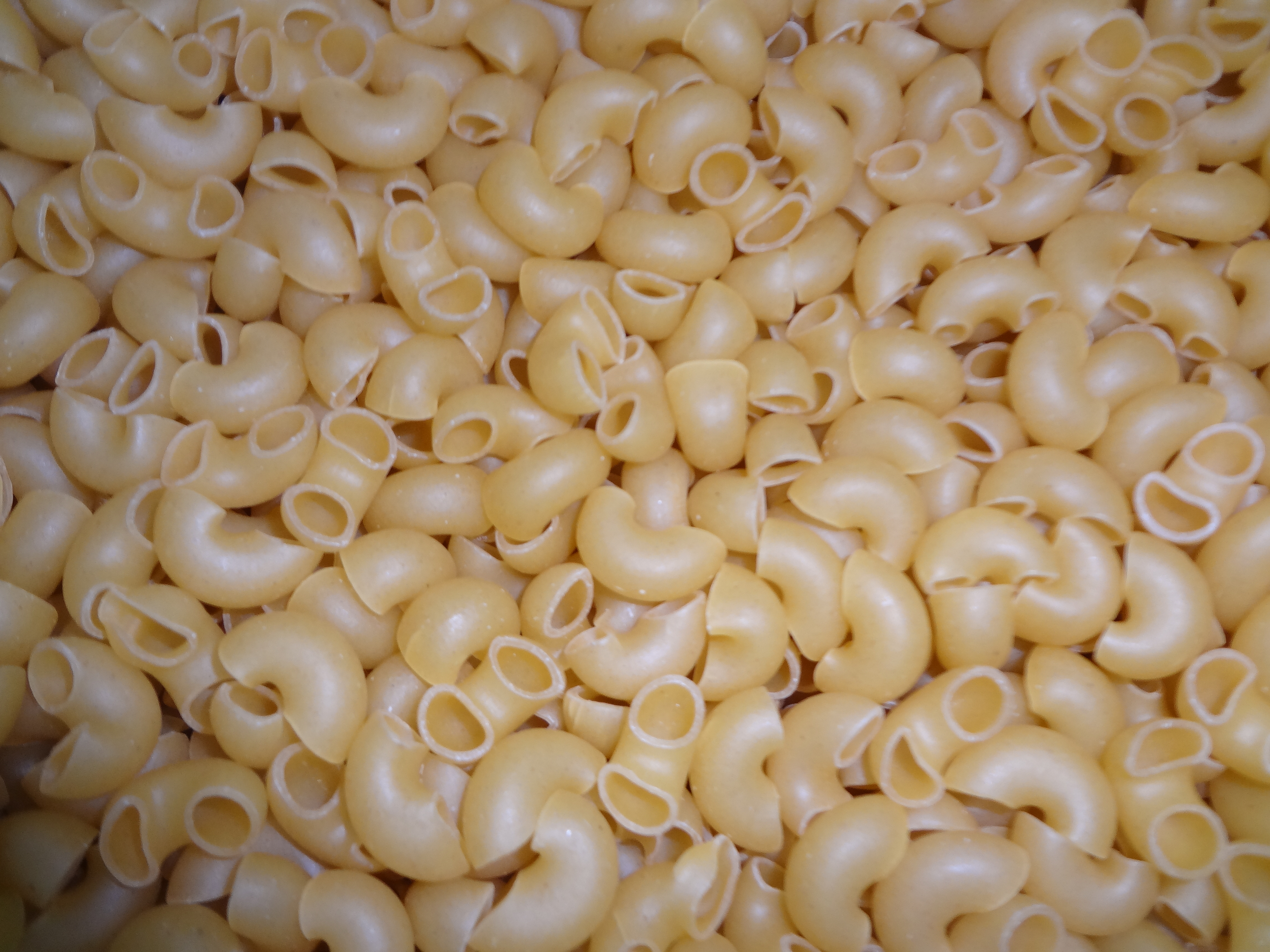 A Bunch of Elbow Macaroni